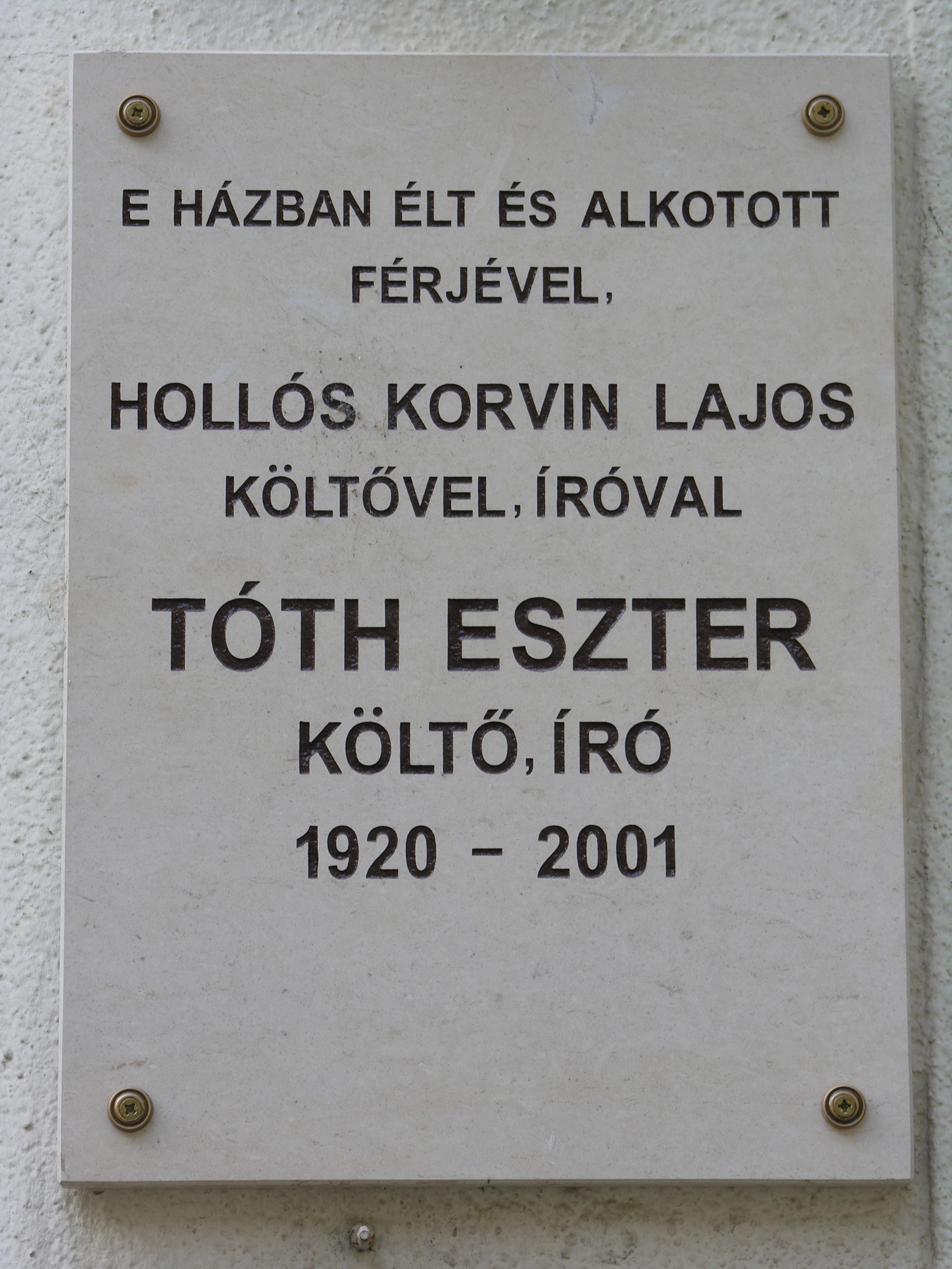 Eszter Tóth and Lajos Hollós Korvin commemorative plaque in Budapest District VI, Hajós Street No 14